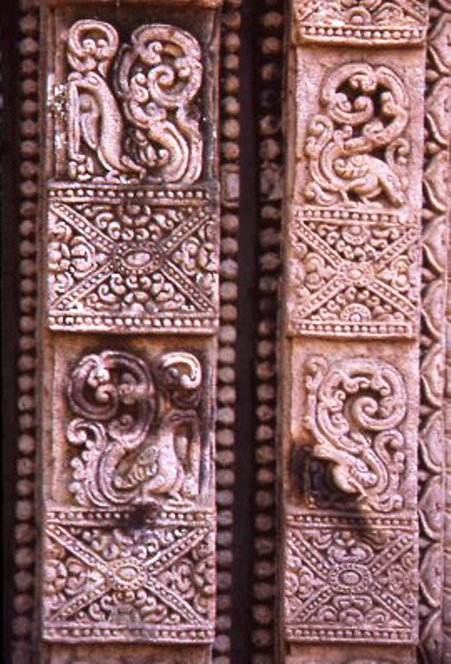 7th century , Parashuramesvara Temple, Detail of engravings with bird motifs decorated with flowers, these birds are celestial geese better known as Hamsa.Orissa, Bhuvanesvar, India.